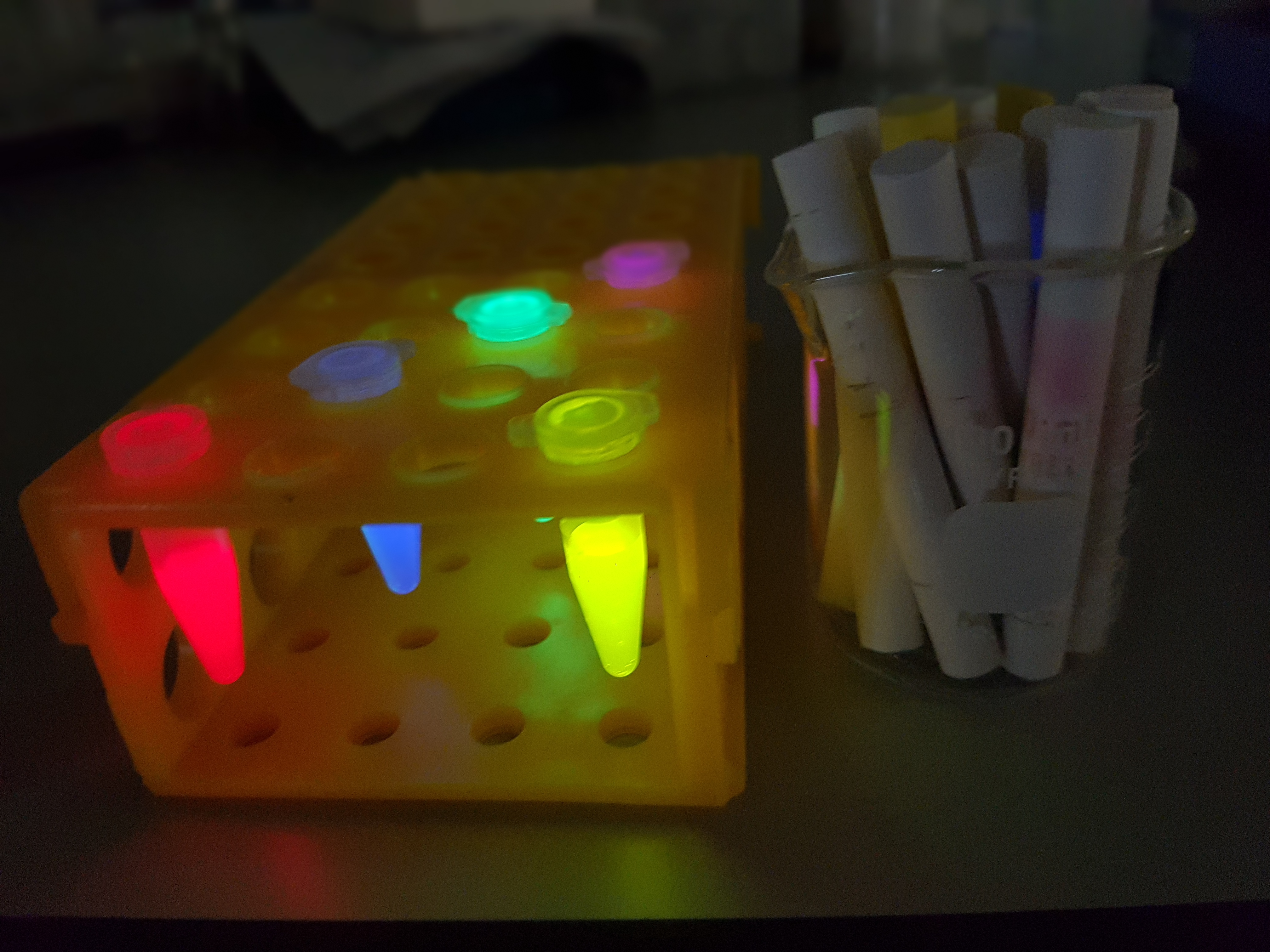 Solution extracted from glow stick.